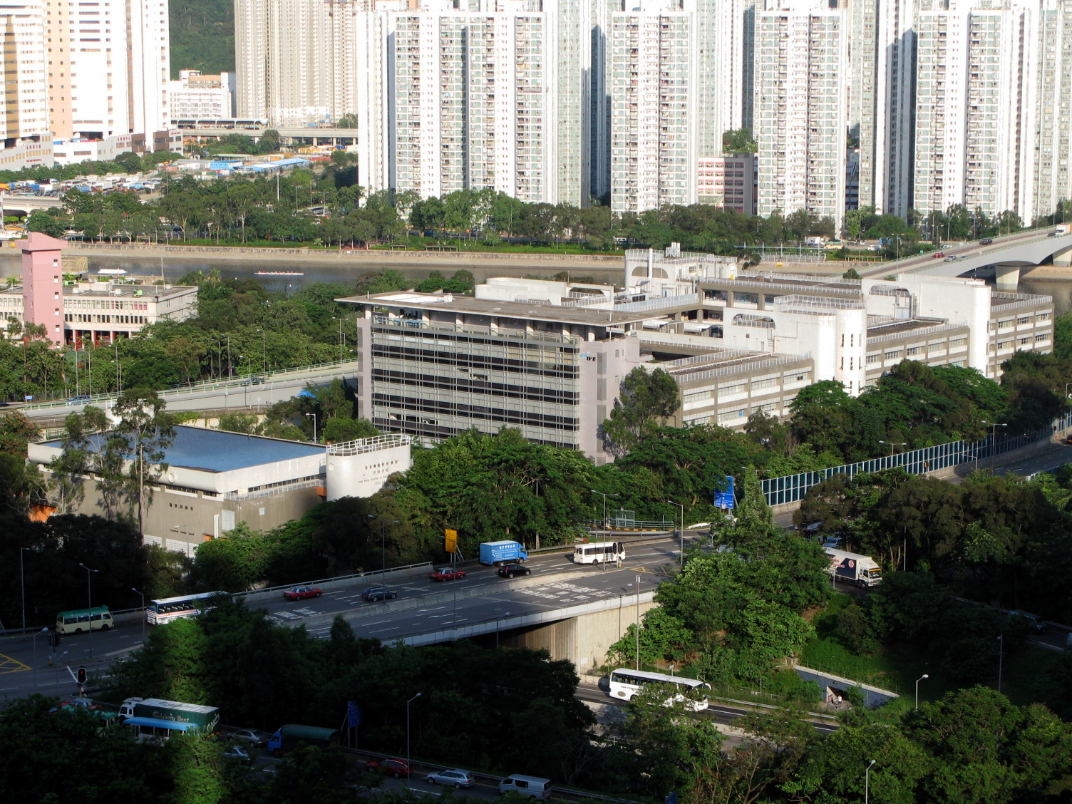 IVE Shatin School Overview 香港專業教育學院沙田分校